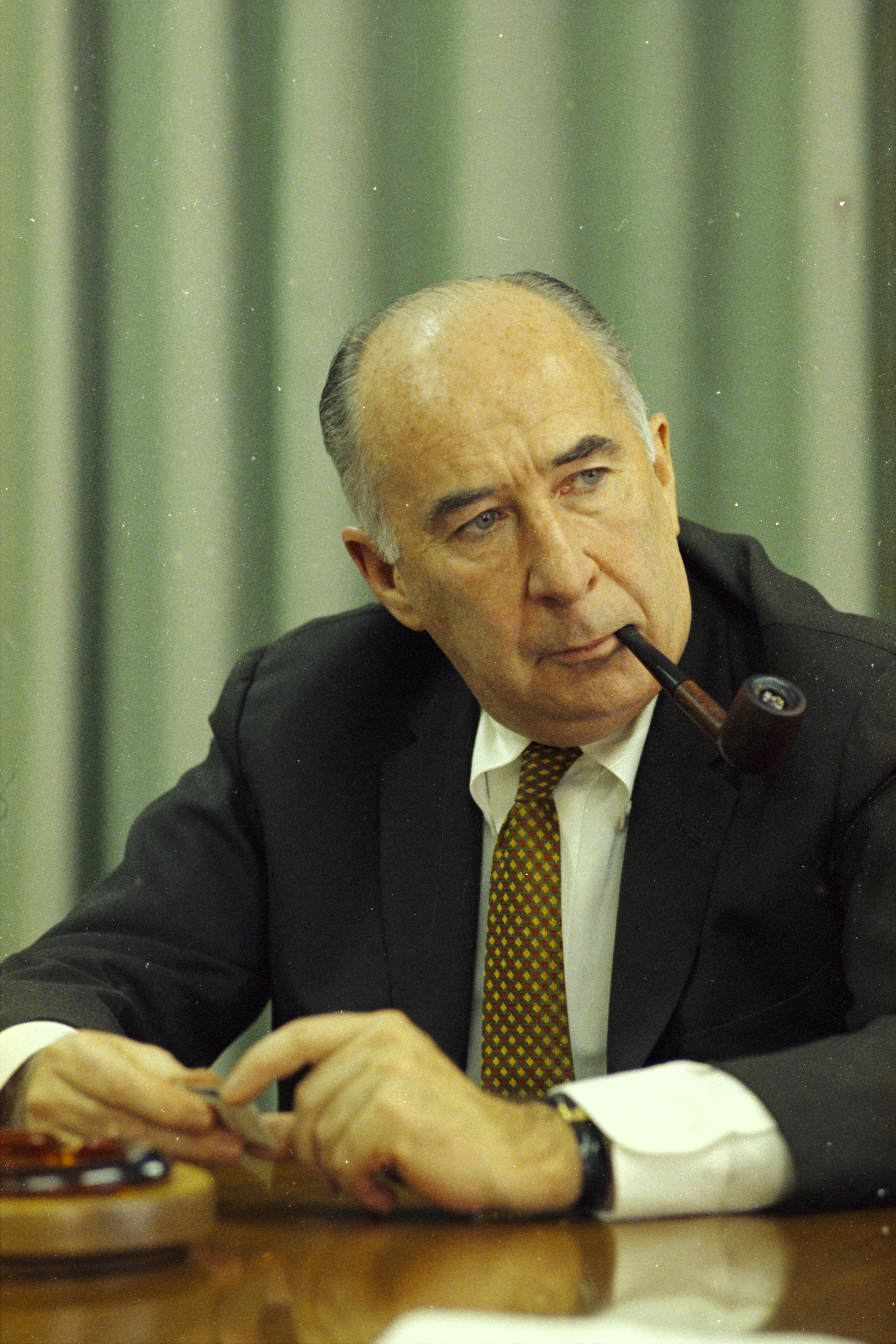 U.S. Attorney General John N. Mitchell